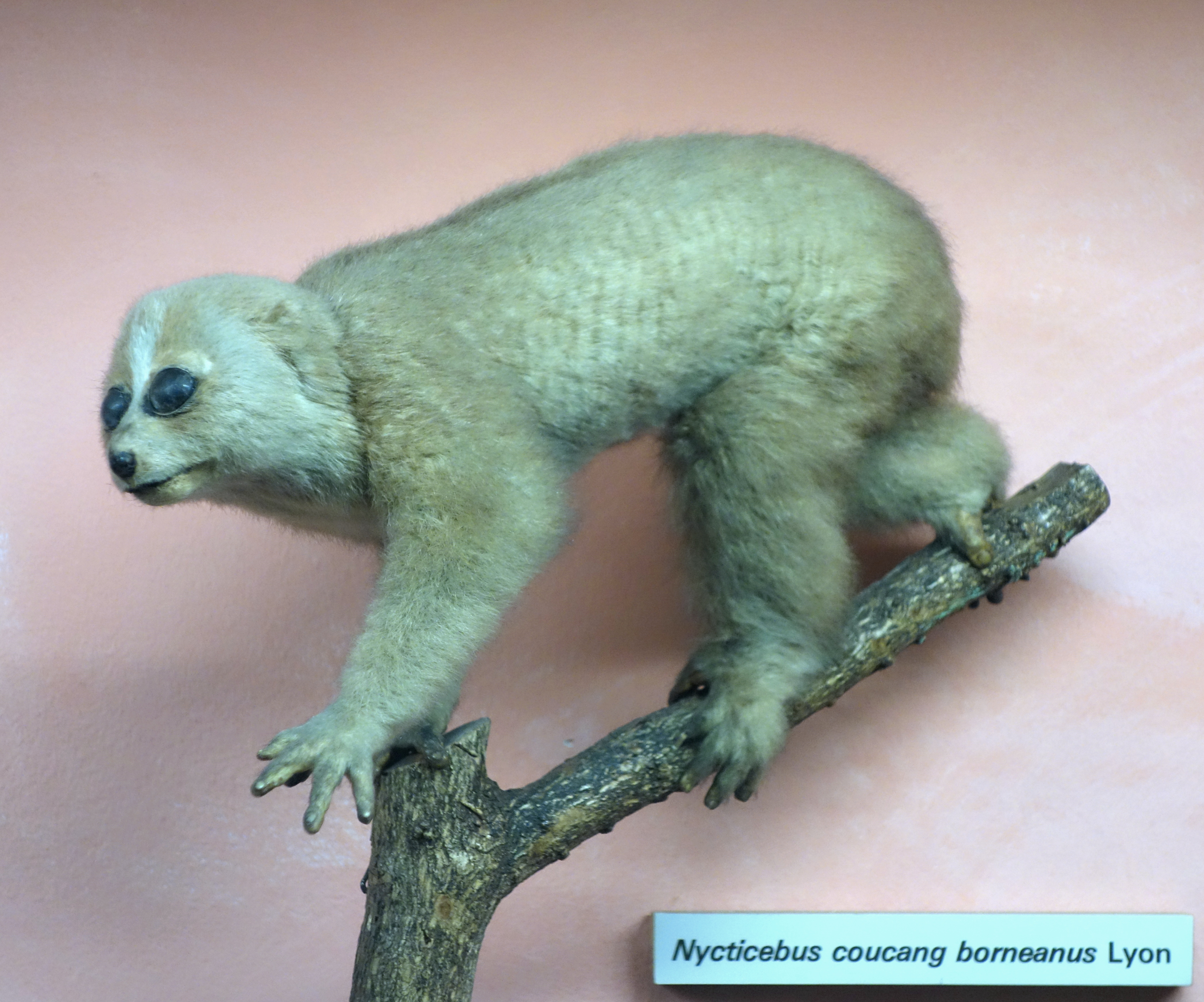 Exhibit in the Museo Civico di Storia Naturale di Genova, Via Brigata Liguria, 9, 16121, Genoa, Italy.